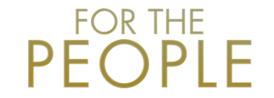 Logo of the ABC show For The People.